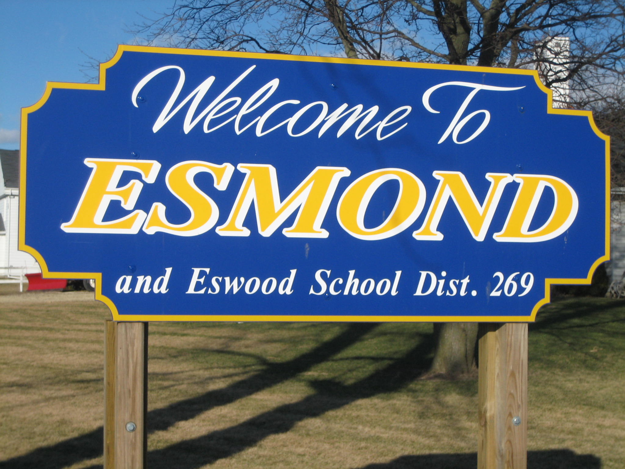 Esmond, Illinois. Welcome to Esmond fine folks.